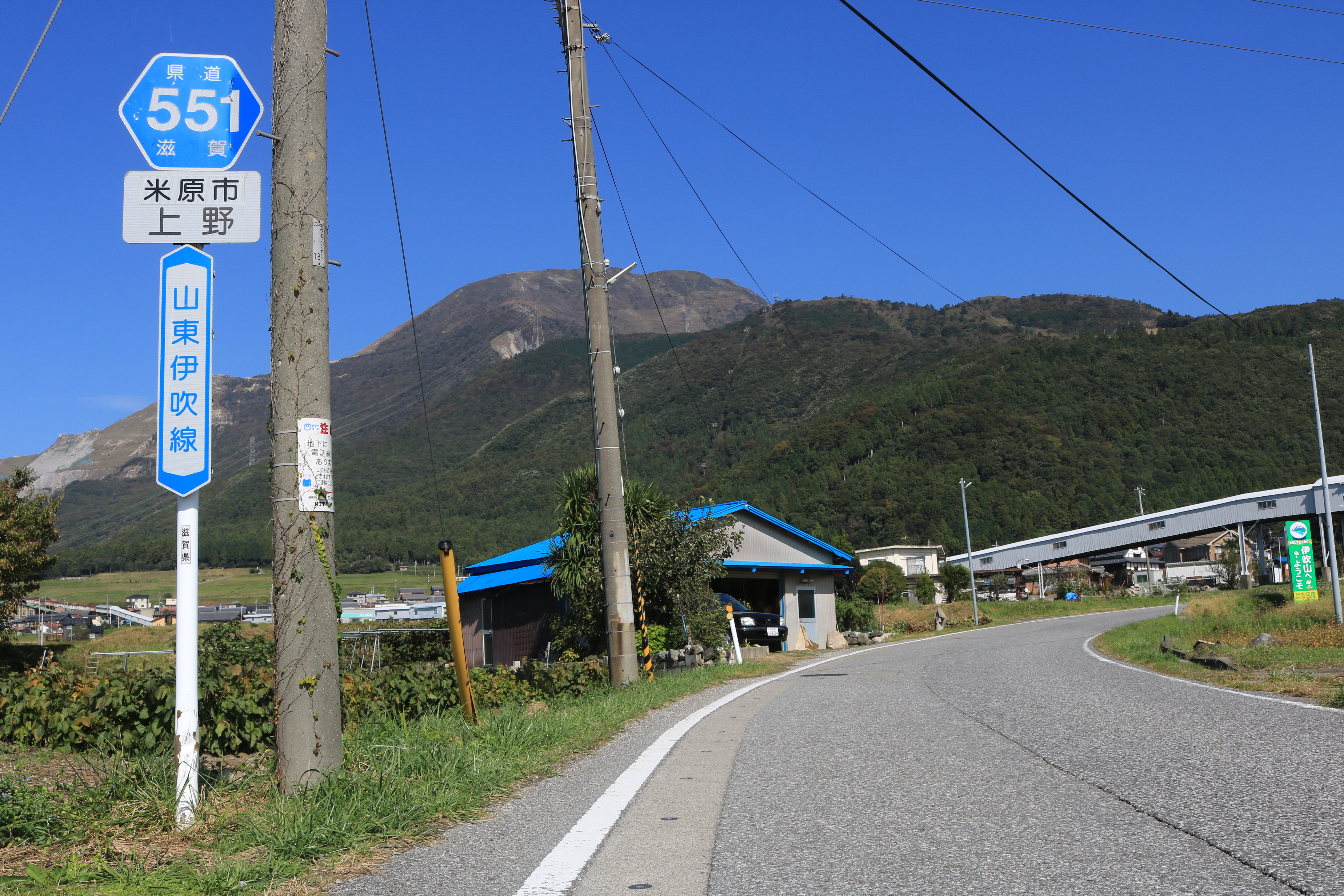 Shiga Prefectural Road Route 551 and Mount Ibuki in Ueno, Maibara, Shiga Prefecture, Japan.